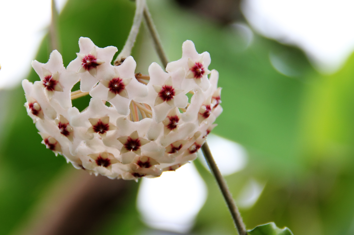 I'm a common house plant grown for my attractive waxy foliage, and sweetly scented star-shaped flowers, sometimes, my heavily scented flower may produce excess nectar that drips from the them. My flowers' surface are covered in tiny hairs giving a fuzzy sheen to them.